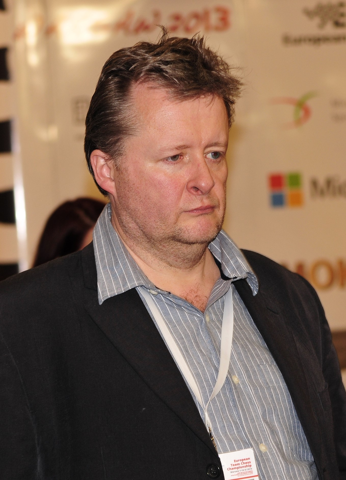 GM Peter Wells, European Chess Team Championship Warsaw 2013